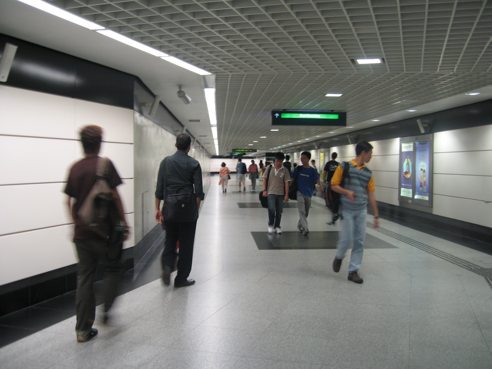 Outram Park MRT Station link (NEL - EWL).